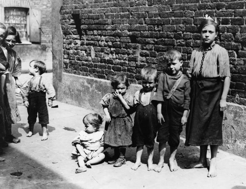 Great Britain Before the First World War Poverty in Great Britain shortly before the First World War. Children photographed barefoot outside their home in a slum area of a British town.